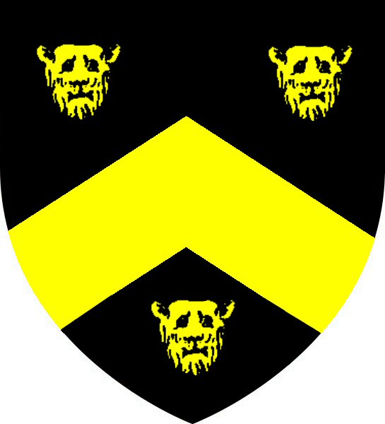 Wentworth Coat of Arms; Sable, a chevron between three leopard's heads Or